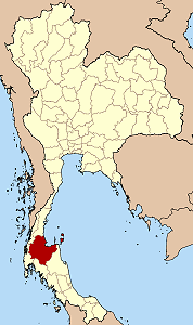 Map of Thailand highlighting the province Surat Thani